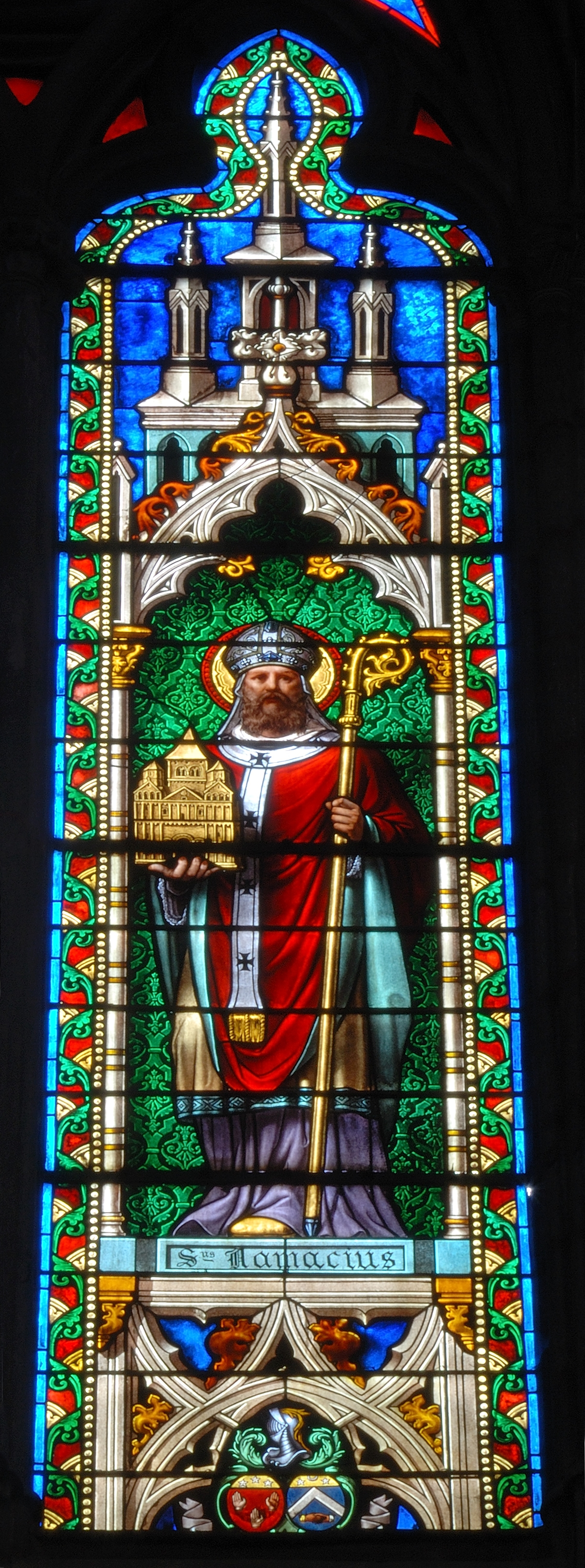 Church of Saint-Eutrope in Clermont-Ferrand, stained glasses representing Saint-Namacius (Namatius, Namace), , Bishop of Clermont during the 5th century (Puy-de-Dôme, France Translations in other languages are welcome.